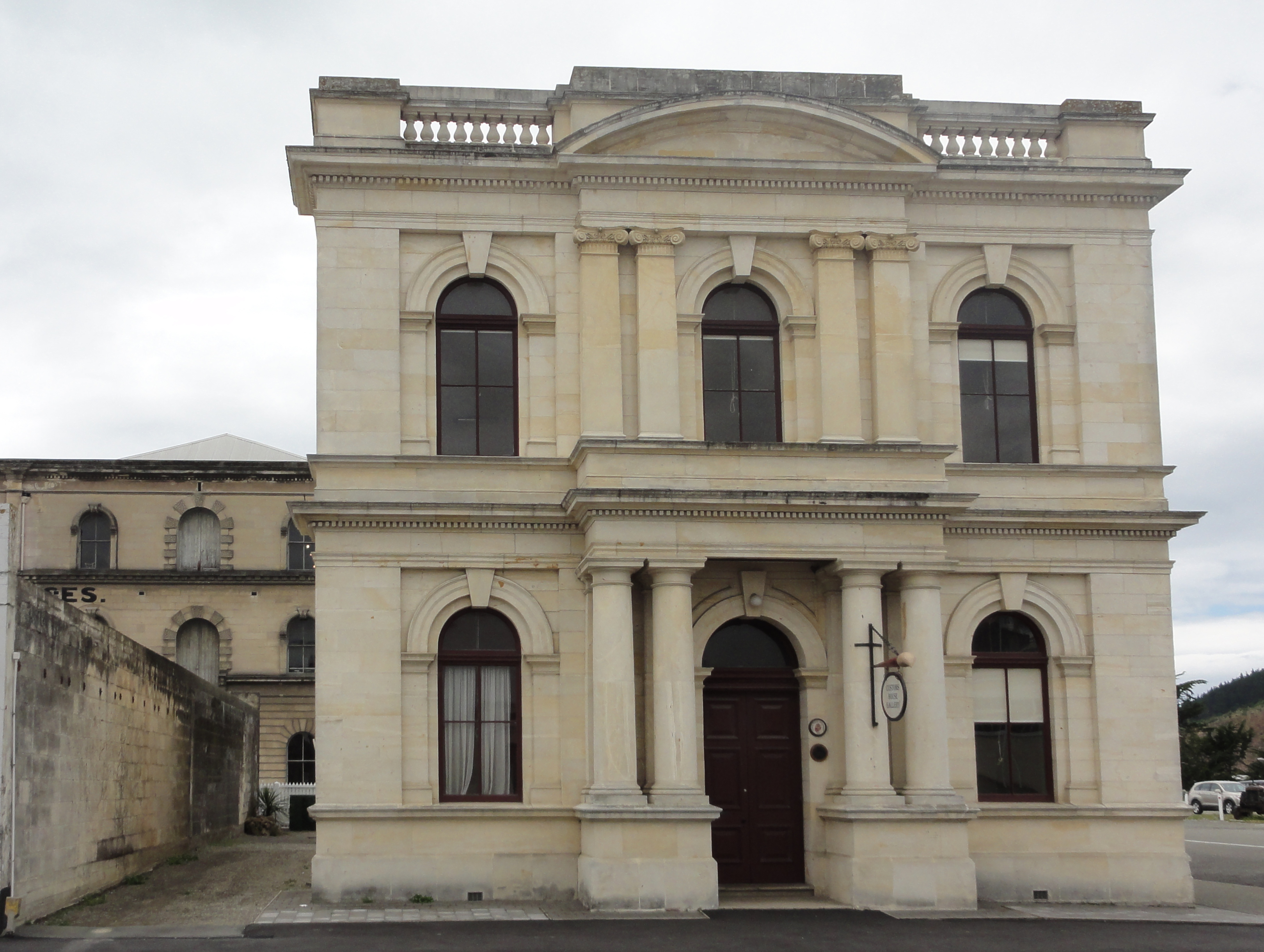 Custom House, Oamaru, Otageo, New Zealand